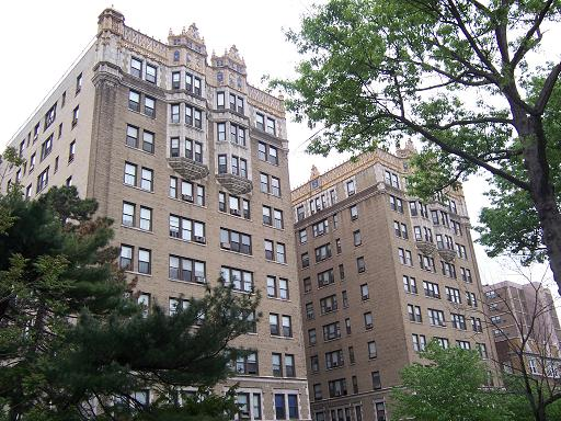 A pre-WWII apartment on South Munn Avenue in East Orange.